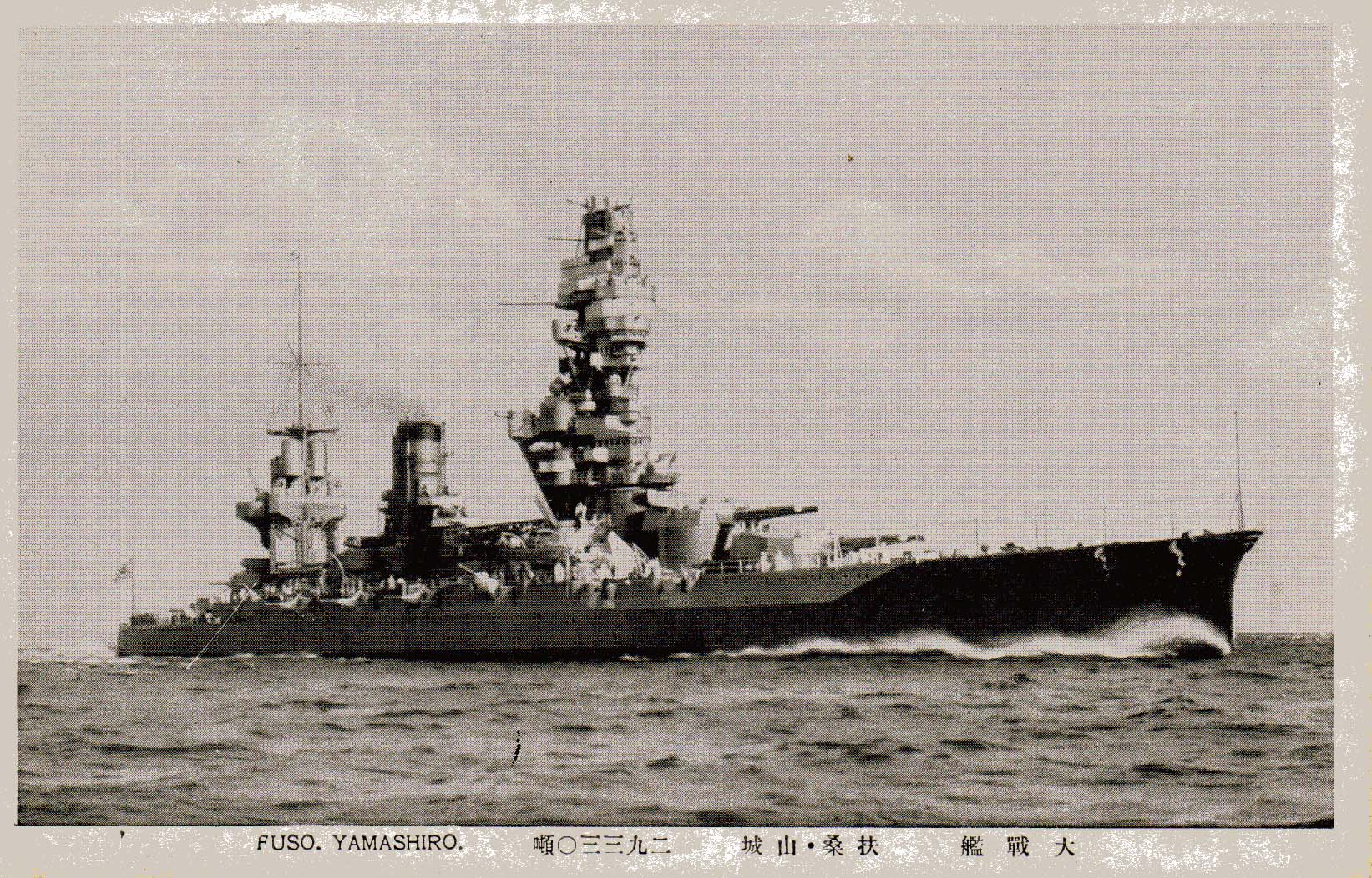 Japanese Battleship Fuso